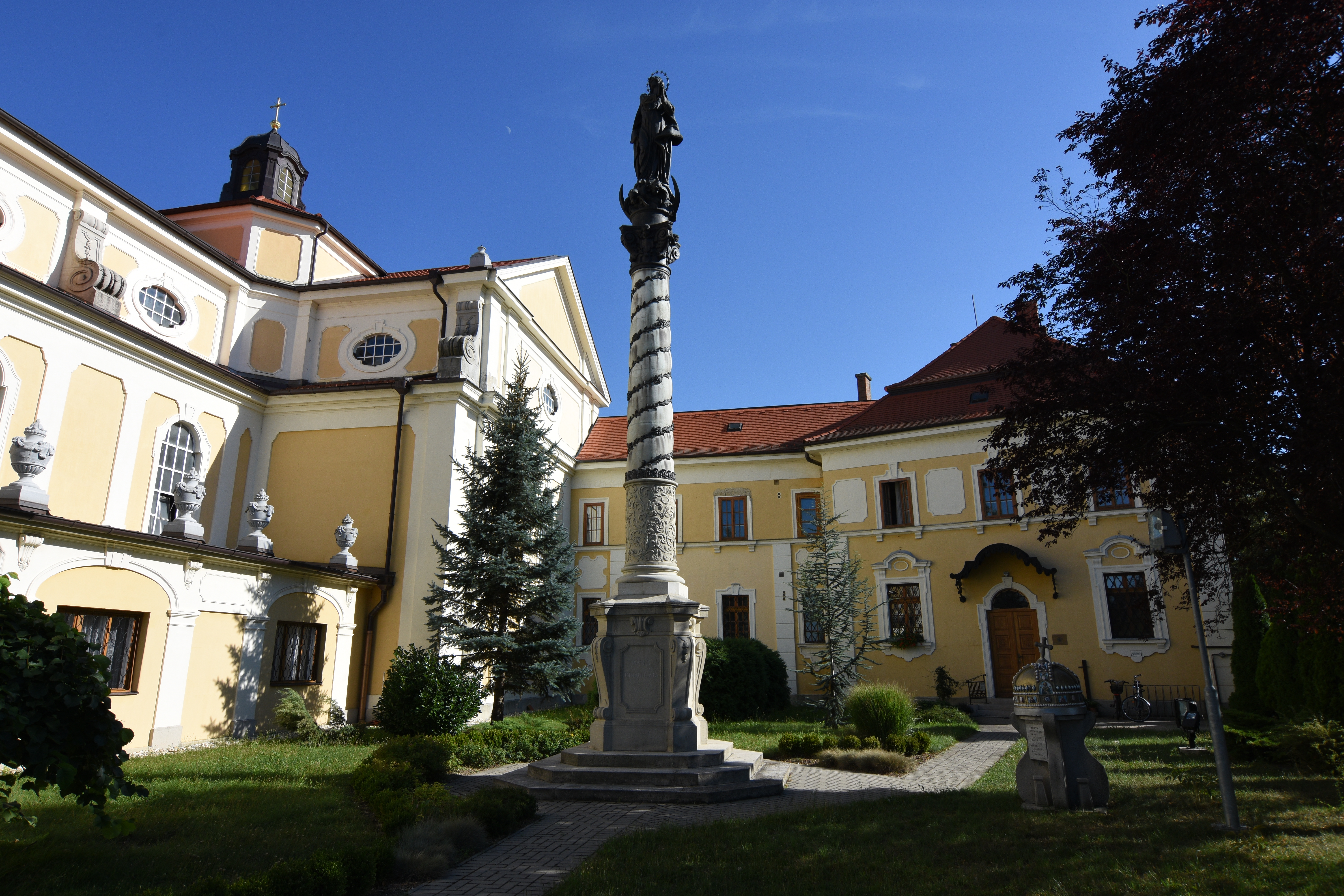 Jézus Szíve templom Ferences Kolostor, Zalaegerszeg